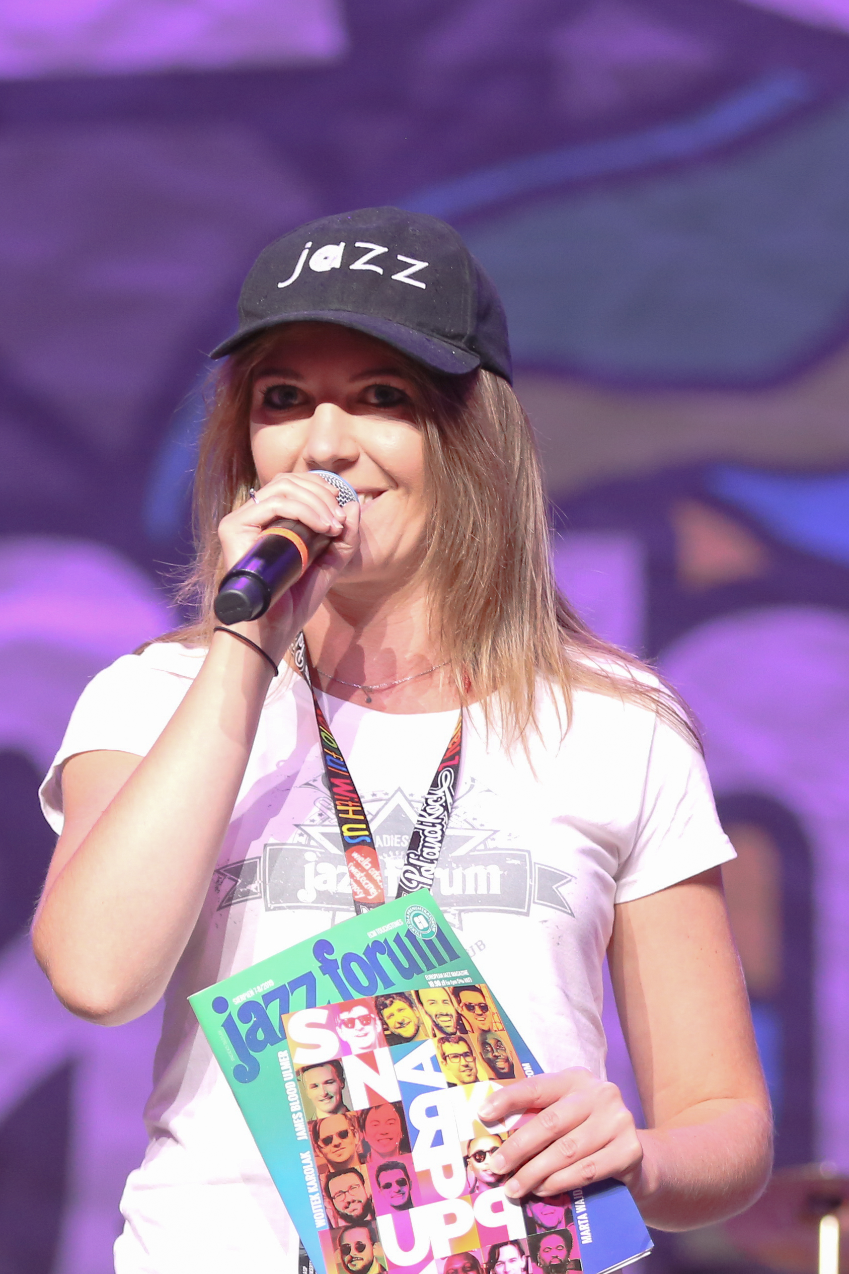 Pol’and’Rock Festival in 2019.